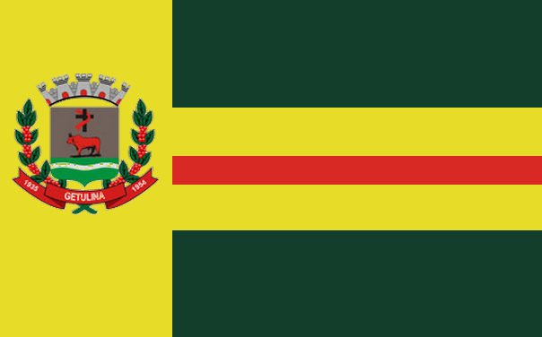 Flag of Getulina - SP - Brazil.